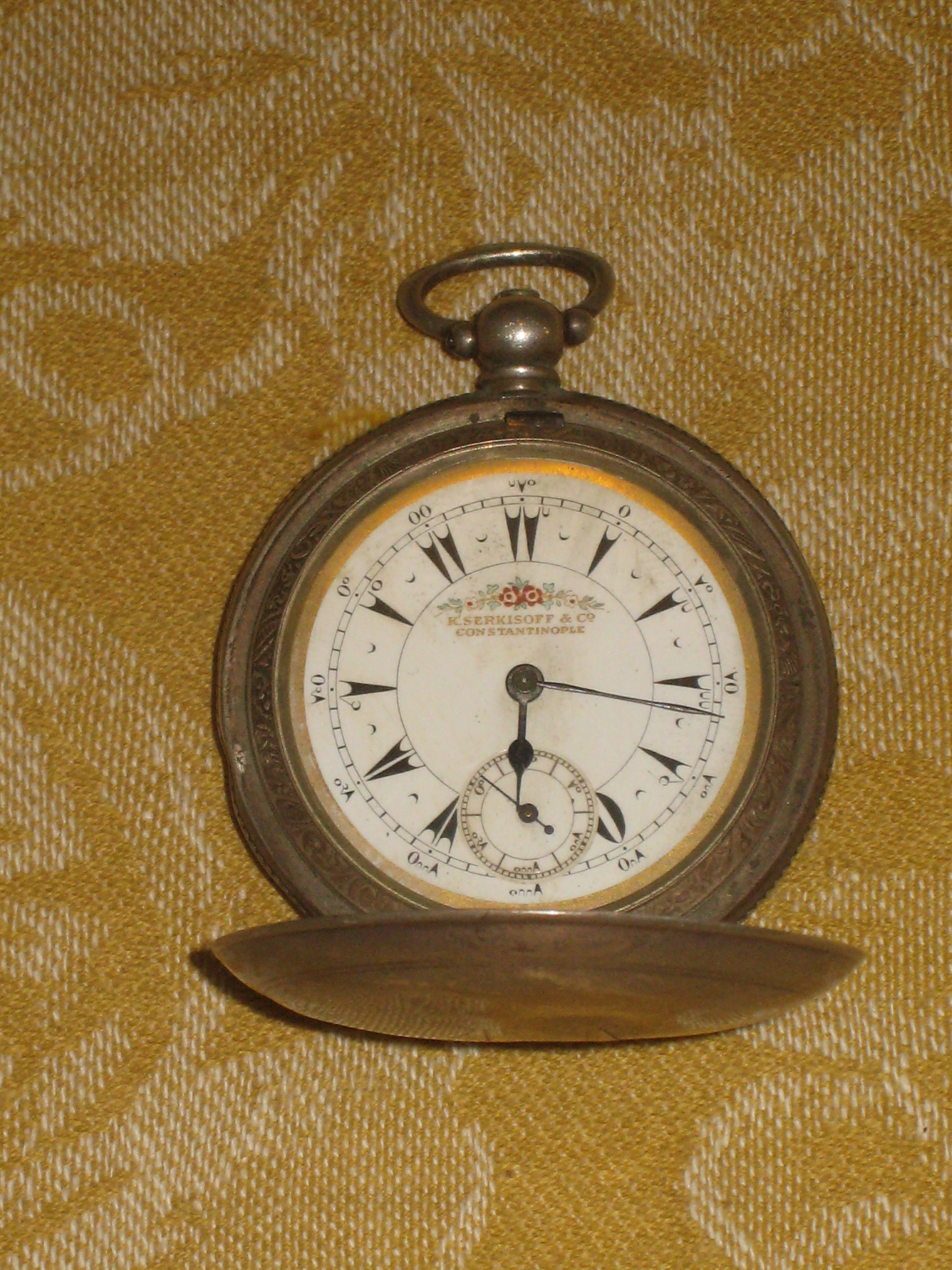 My sister's birthday present to me from her travels in Turkey. Oh it's so beautiful. Here's what a fully restored version looks like: Aggregated Description from Various Sources: Late Victorian Billodes (Billodes was the Zenith Watchmaker name in the Middle East) key-wound pocket watch made for the Ottoman Army. Different sources by pocket watch online stores cite the watch is anywhere from 1860s to 1890s. The watch was assembled and/or had its enamel made by K. Serkisoff & Co of Constantinople (Yes, it is pre-"Istanbul"). The enamel is surrounded by a gold leaf rim and uses Ottoman numerals. The watch uses a triple silver case. The dial is 54mm in diameter. The case is signed 0,800 with the serial numbers 3173003-4031 on the front and 3003-4031 on the back.